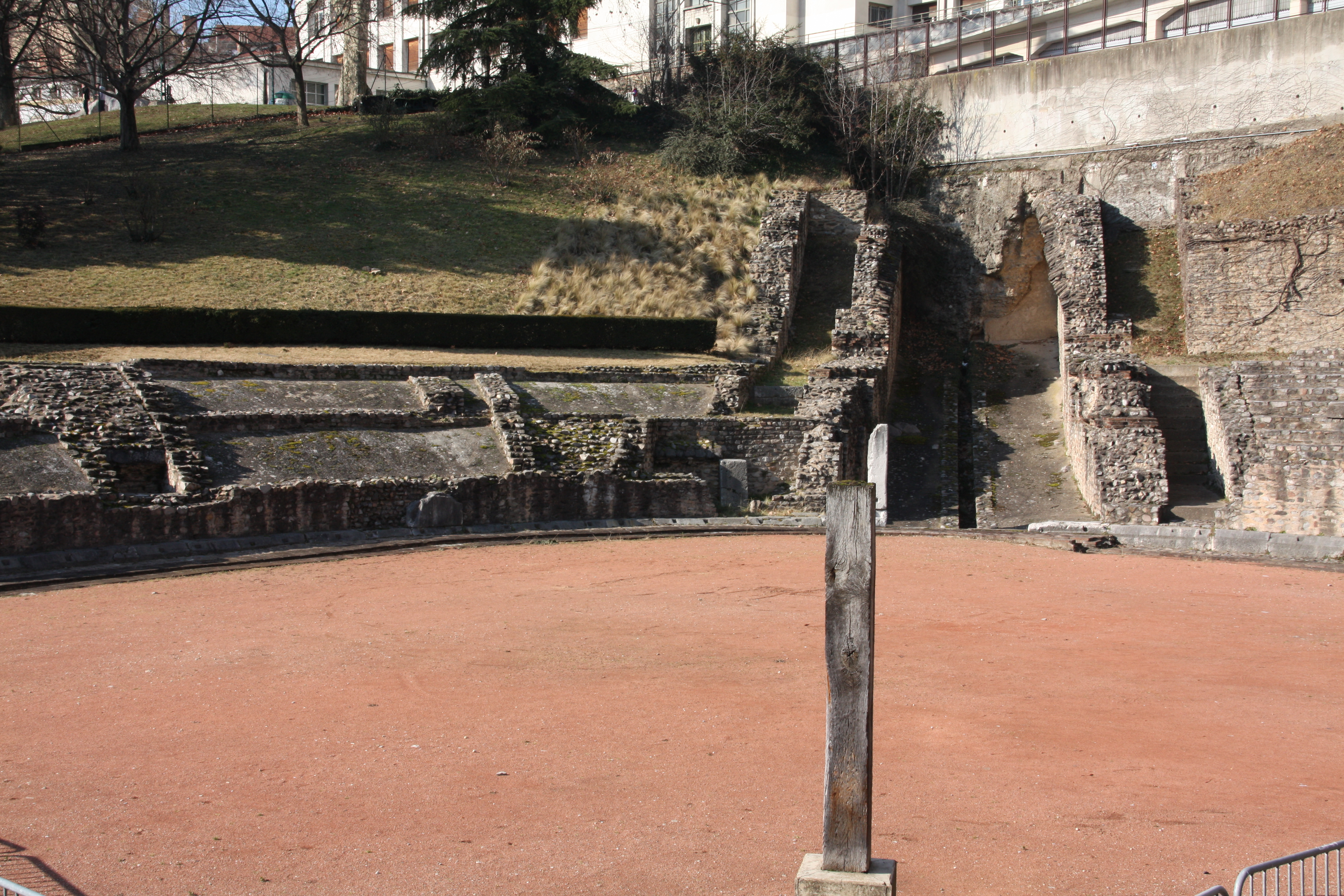 Amphitheatre of the Three Gauls